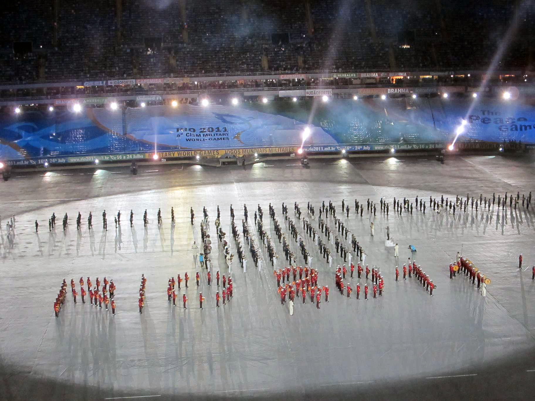 2011 Military World Games opening